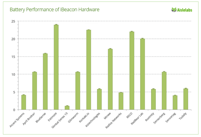 Experimental study on battery life of different beacons available in the market